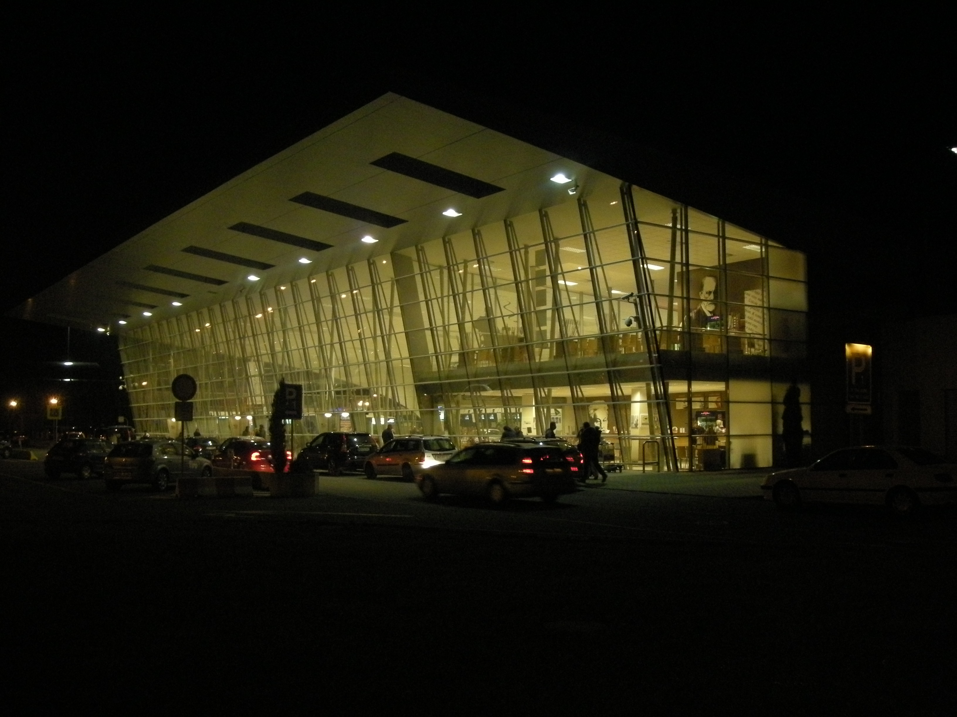 Terminal of Leos Janacek intl airport in Ostrava-Mosnov at night.